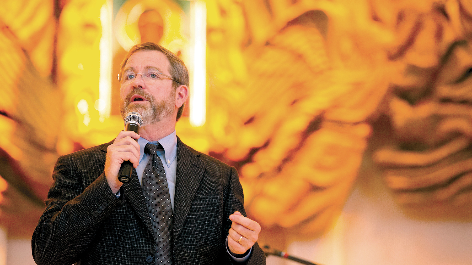 Jeff Cavins speaking at a seminar in Ireland